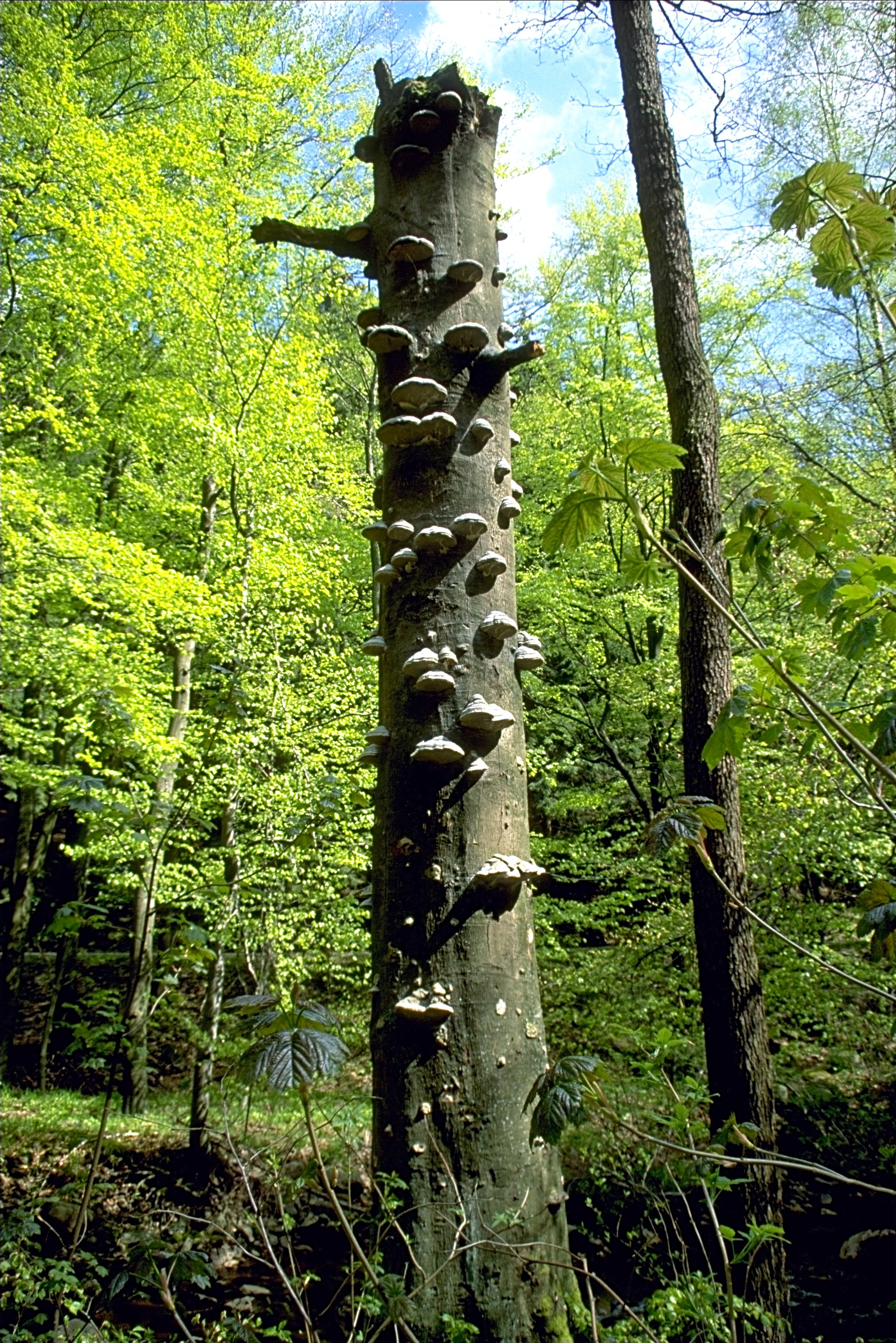 Dead Fagus sylvatica tree covered with mushrooms near Ilsefälle (Ilsenburg), National park Hochharz, Germany Photo was taken using the following technique: Film: Fuji Velvia Lens: 28-80 Filter: none Body: Minolta 600si Support: Gitzo Monotrek Image with Information in English Bild mit Informationen auf Deutsch